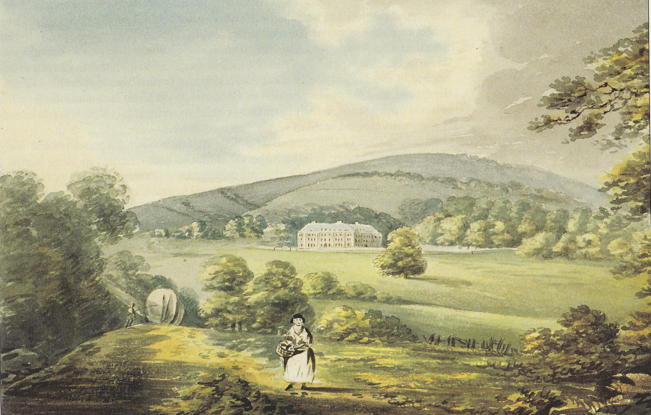 Water-colour painting of West Sandford House, 2 1/2 miles NW of Crediton, Devon, by Rev. John Swete, 1797. Entitled: "Sandford, seat of Sir John Chichester, Bart.", dated 1797